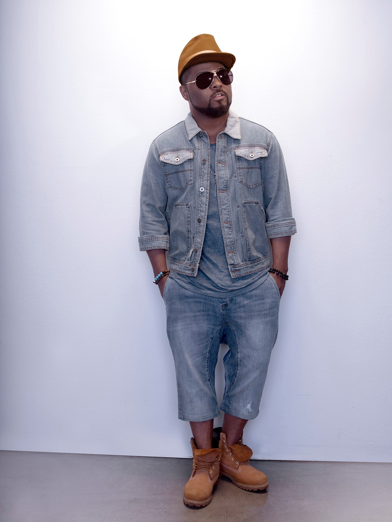 2016 image of soul singer Musiq Soulchild